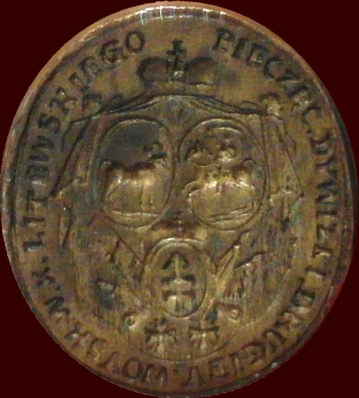 Little seal of the 2nd Division of Grand Duchy of Lithuania (XVIII Century)